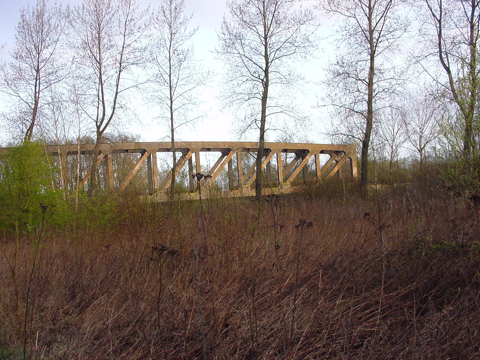 Old Bridge for "Cavaliers miniers" (the name given to former railroad private coal mine in northern France). Some of these structures have now a true value of "biological corridor" and are classed as a part of the "ecological network of the "bassin minier". Others have been converted into trails for walking (pedestrians, horses, bicycles)